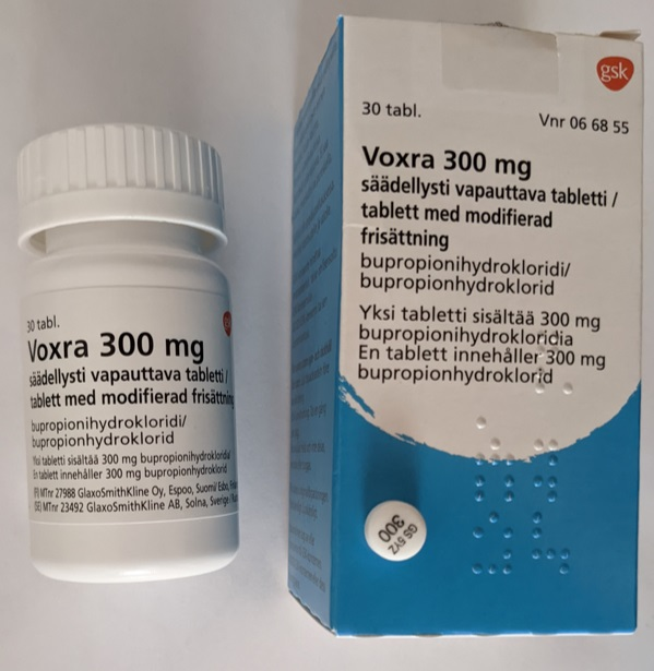 Buproprione under the brand Voxra. (swedish)